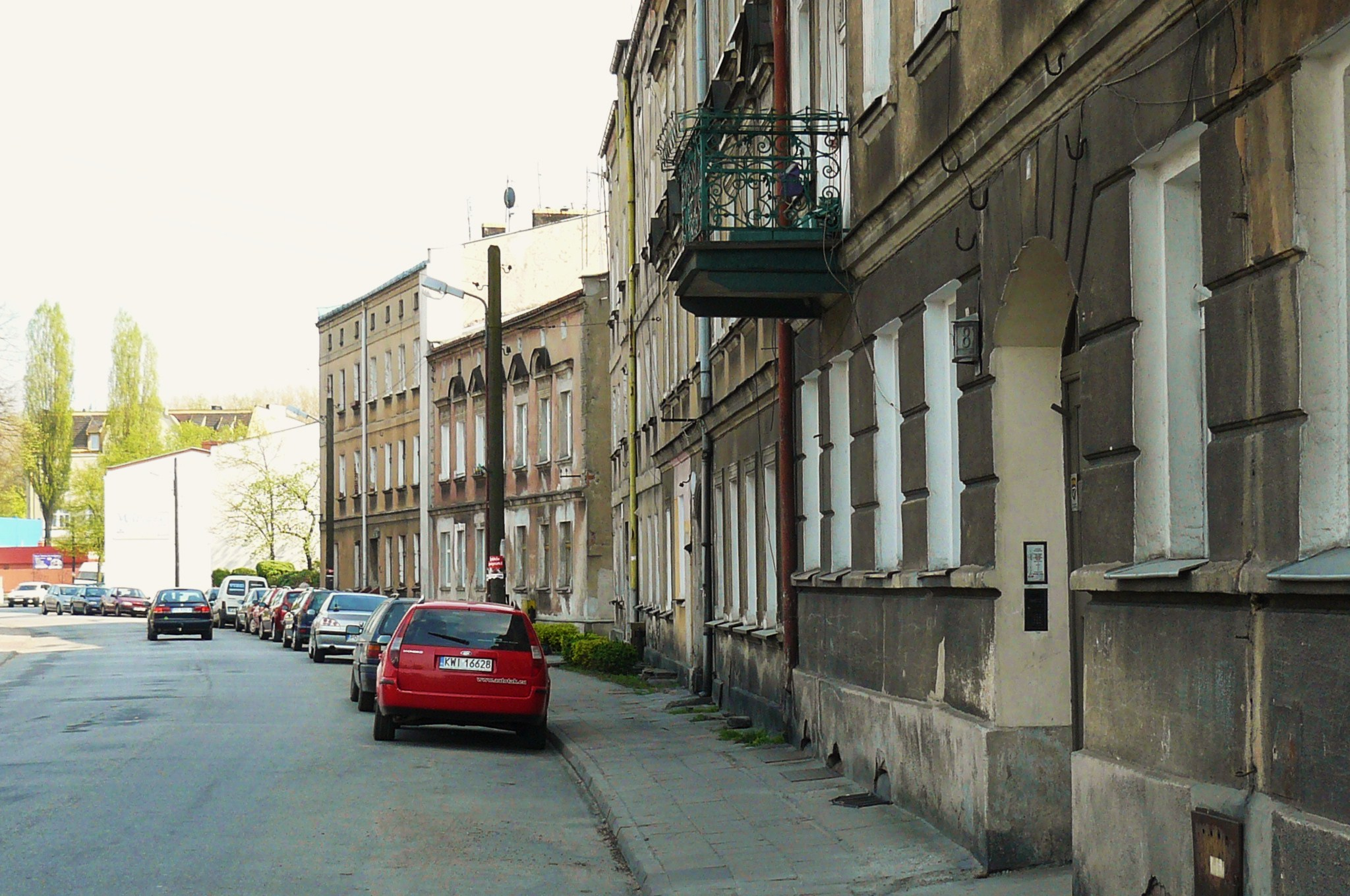 Smolna Street, Poznan.